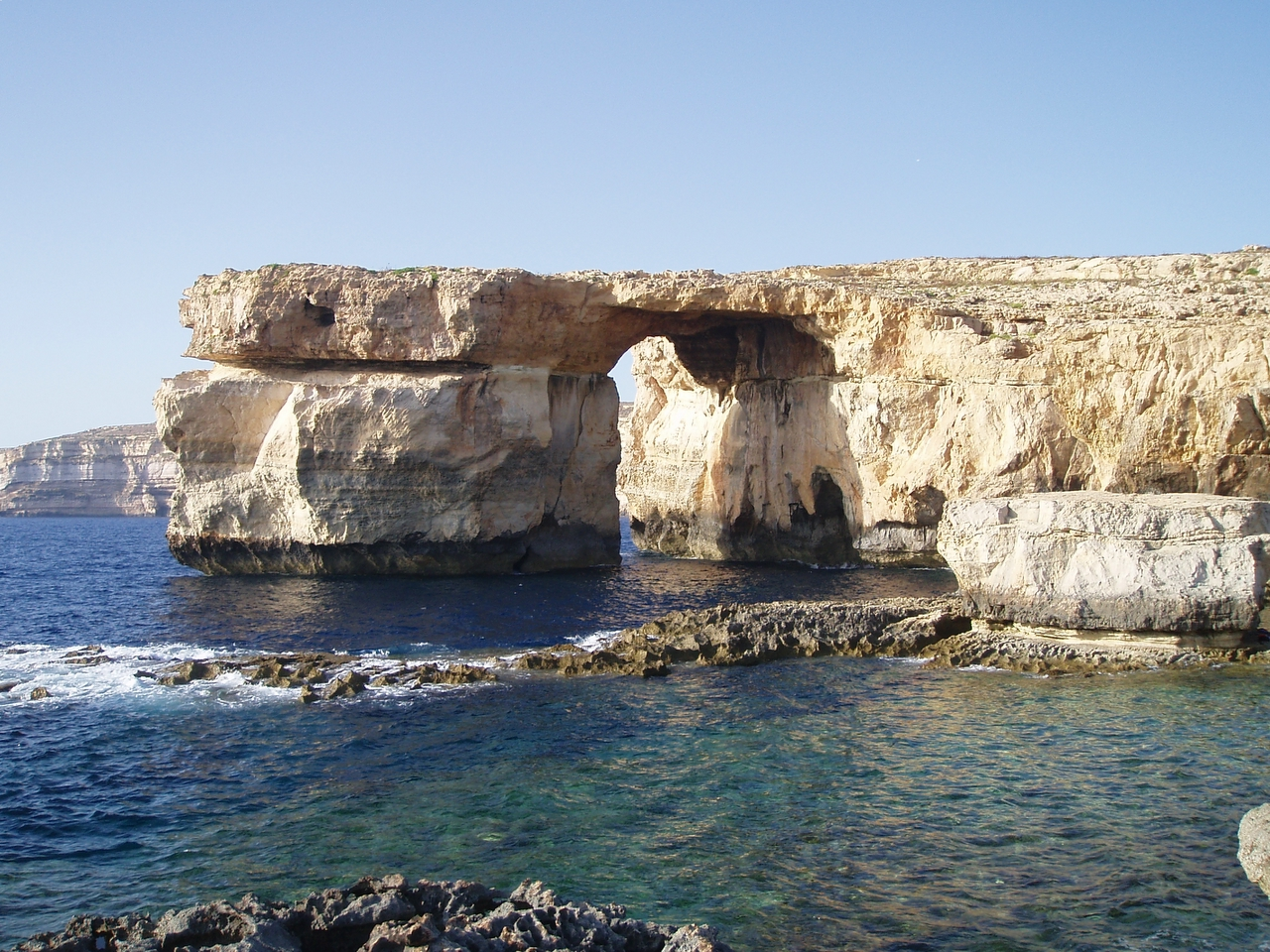 The following is the author's description of the photograph quoted directly from the photograph's Flickr page."The Azure Window, Dwejra Bay, Gozo "